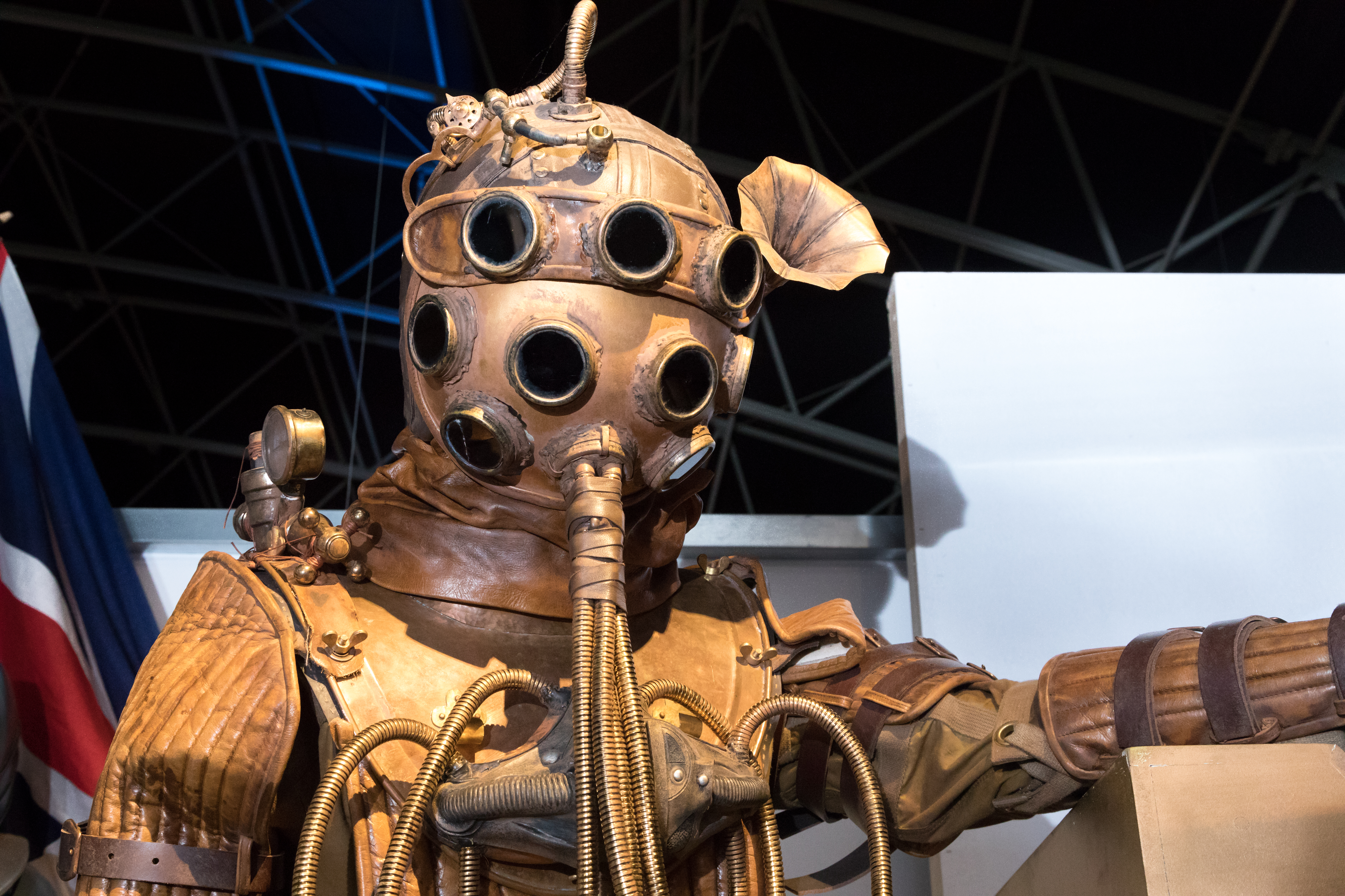 Click here to view my Doctor Who collection Click here to view my Doctor Who locations collection Doctor Who Experience